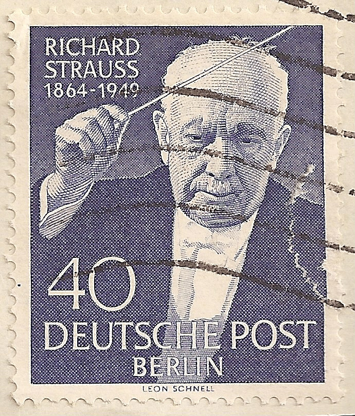 West-Berlin stamp figuring Richard Strauss and designed bu Leon Schnell, issued 18 September 1954.